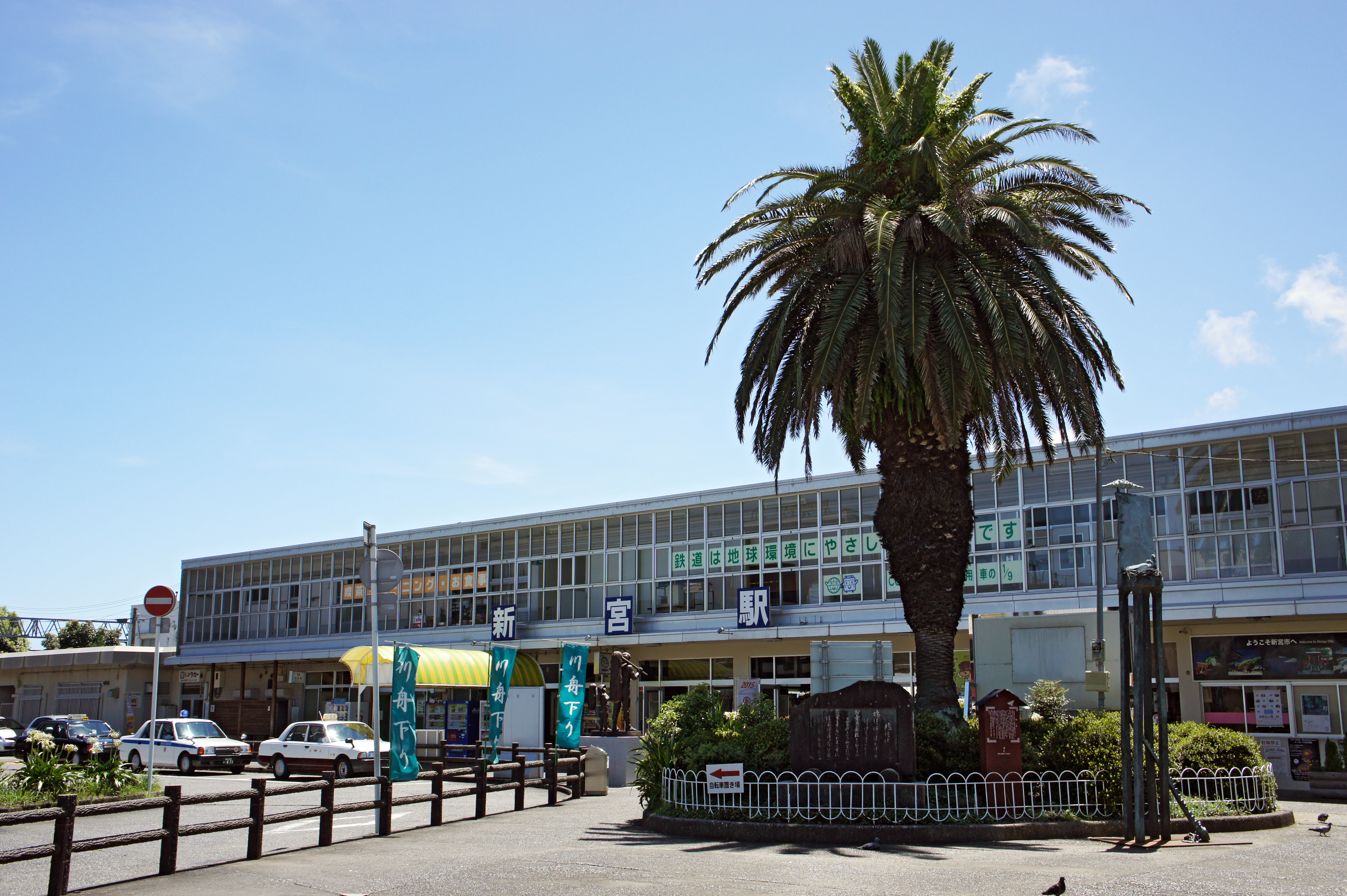 Shingu Station in Shigu, Wakayama prefecture, Japan